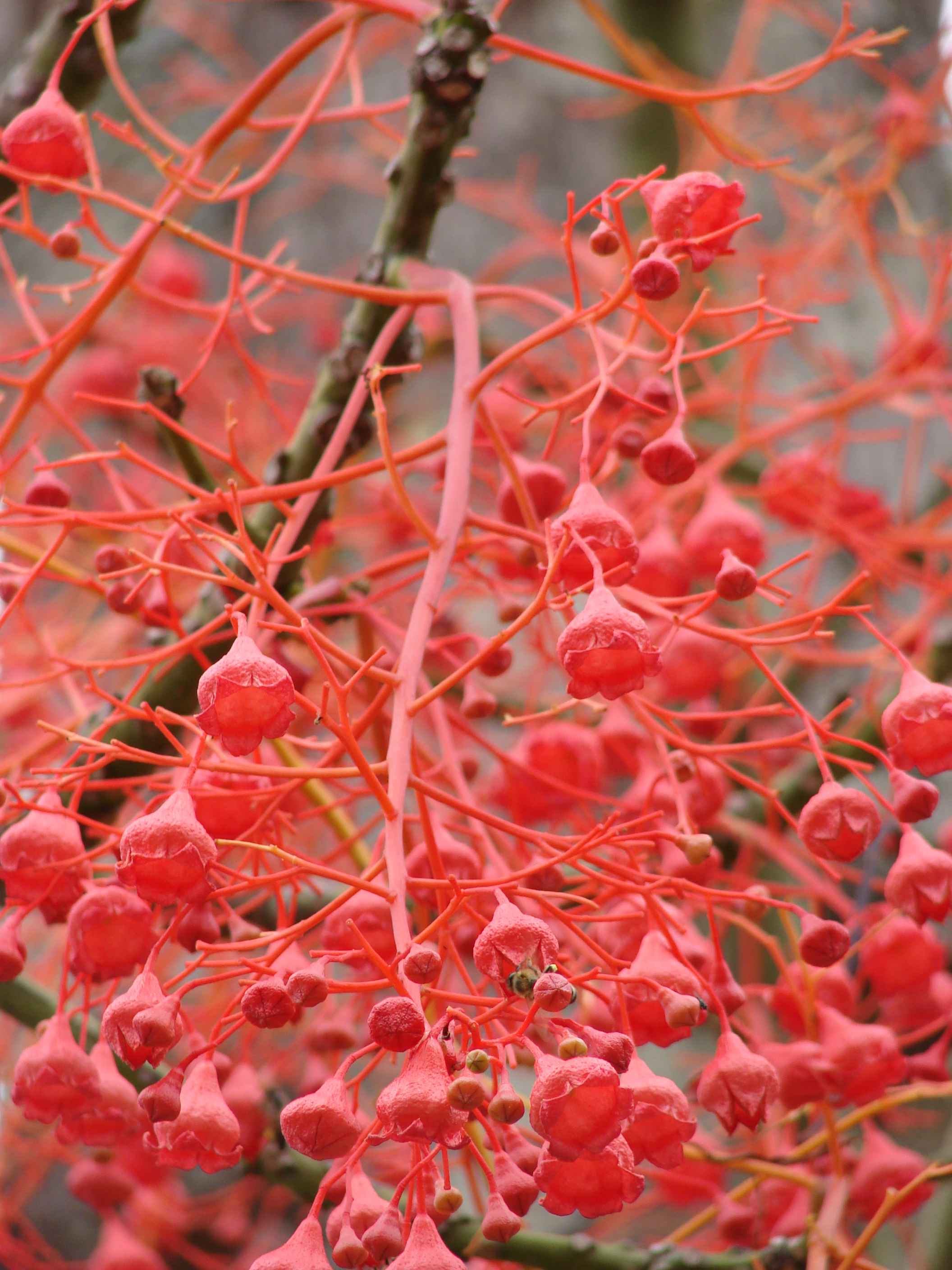 Brachychiton acerifolius (flowers). Location: Maui, MISC HQ Piiholo